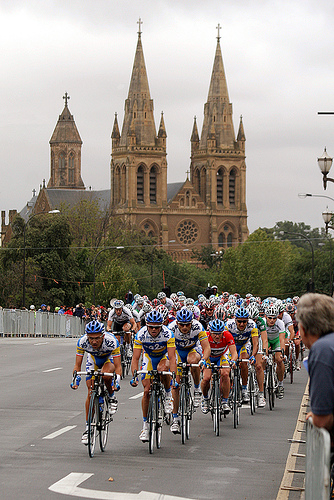 Tour Down Under 2007 peloton in front of St Peter's Cathedral, Adelaide